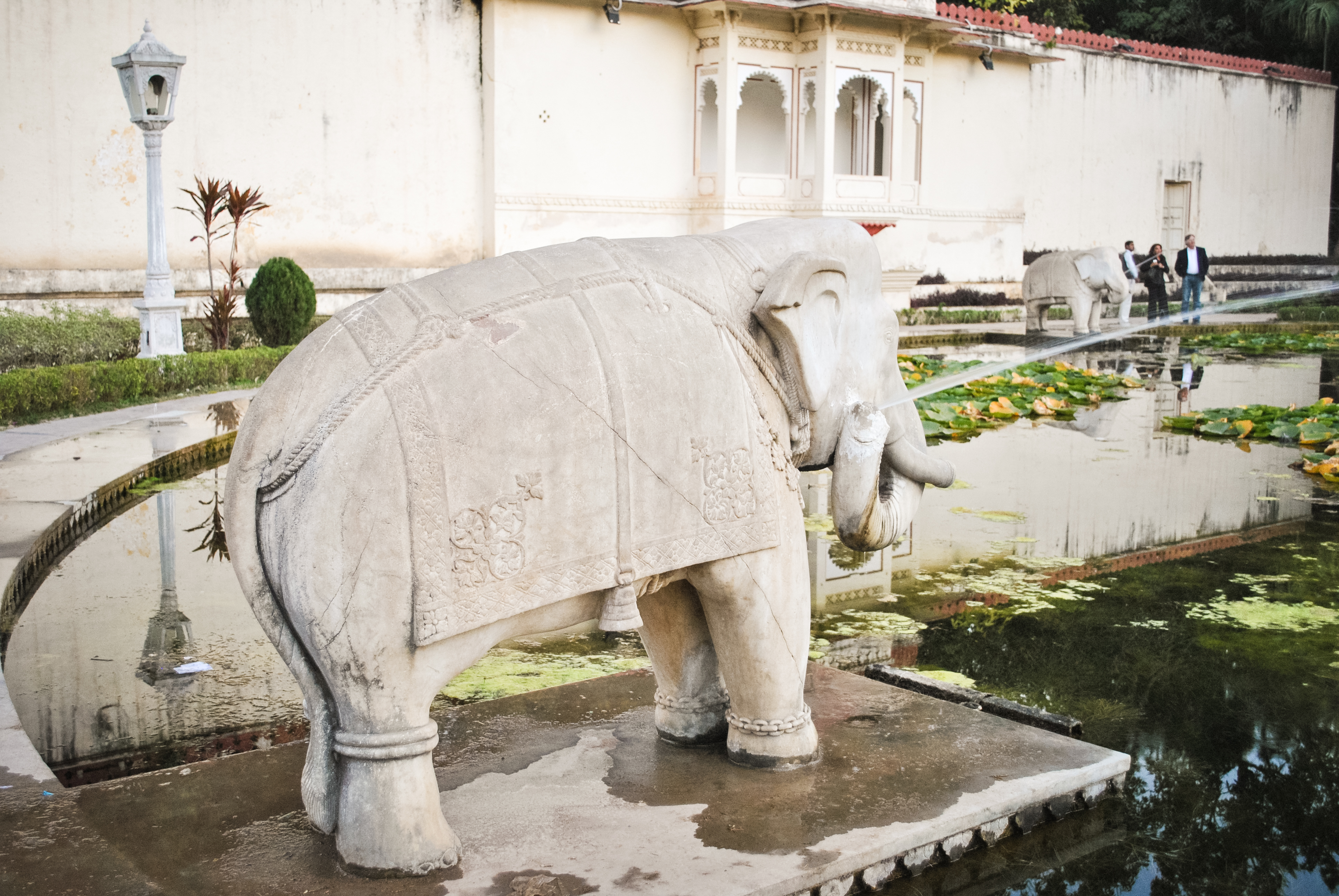 Fascinating view of different places in rajasthan